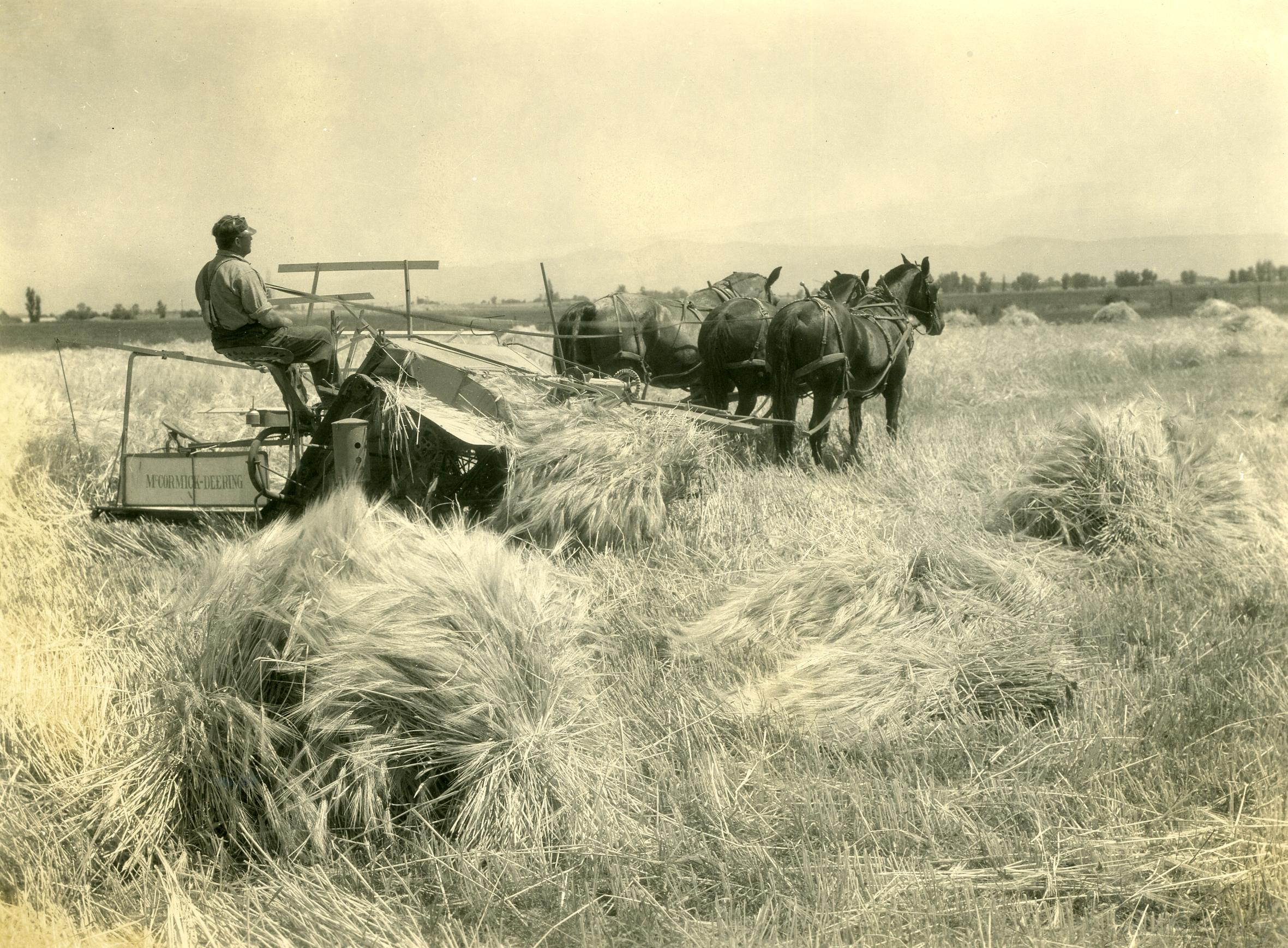 A farmer works a wheat field in the Boise Valley of Idaho, circa 1920. A McCormick-Deering reaper-binder pulled by three horses.